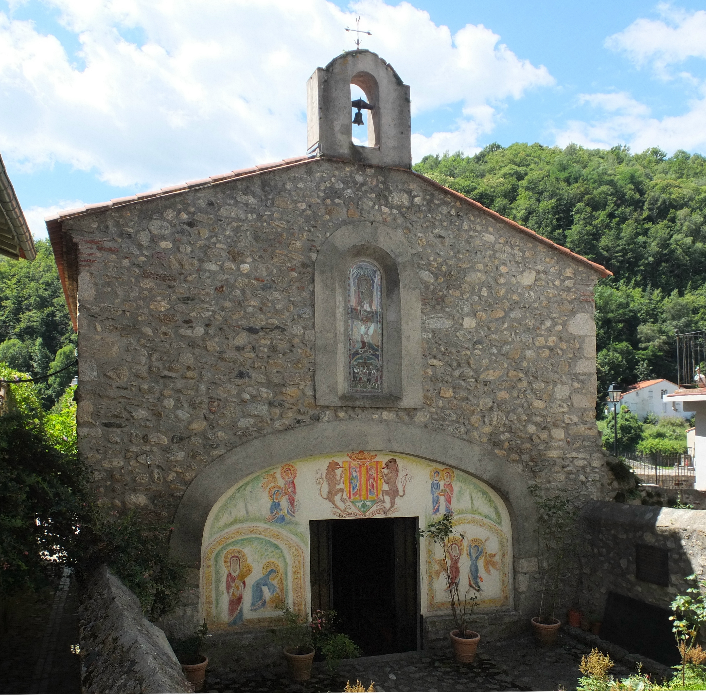 Chapel "Saintes Juste et Ruffine" (17th century), Prats-de-Mollo-la-Preste, France (view N).